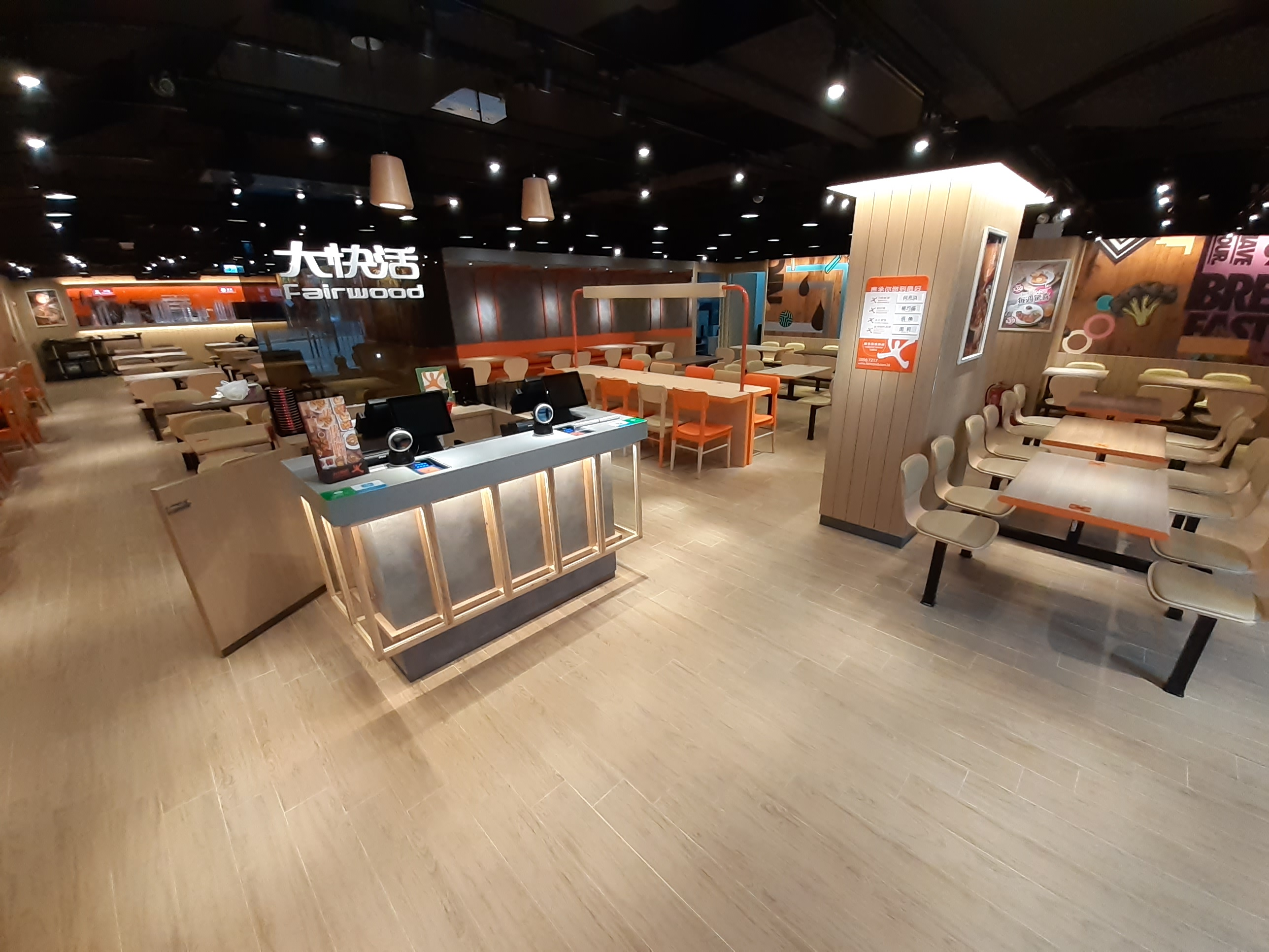 HK 西環 Sai Ying Pun 皇后大道西 292-298 Queen's Road West 八達大廈 Federal Building shop 正街 Centre Street in October 2019